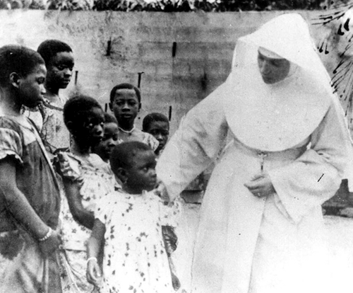 Sister Eugenia Elisabetta Ravasio with pupis in Africa